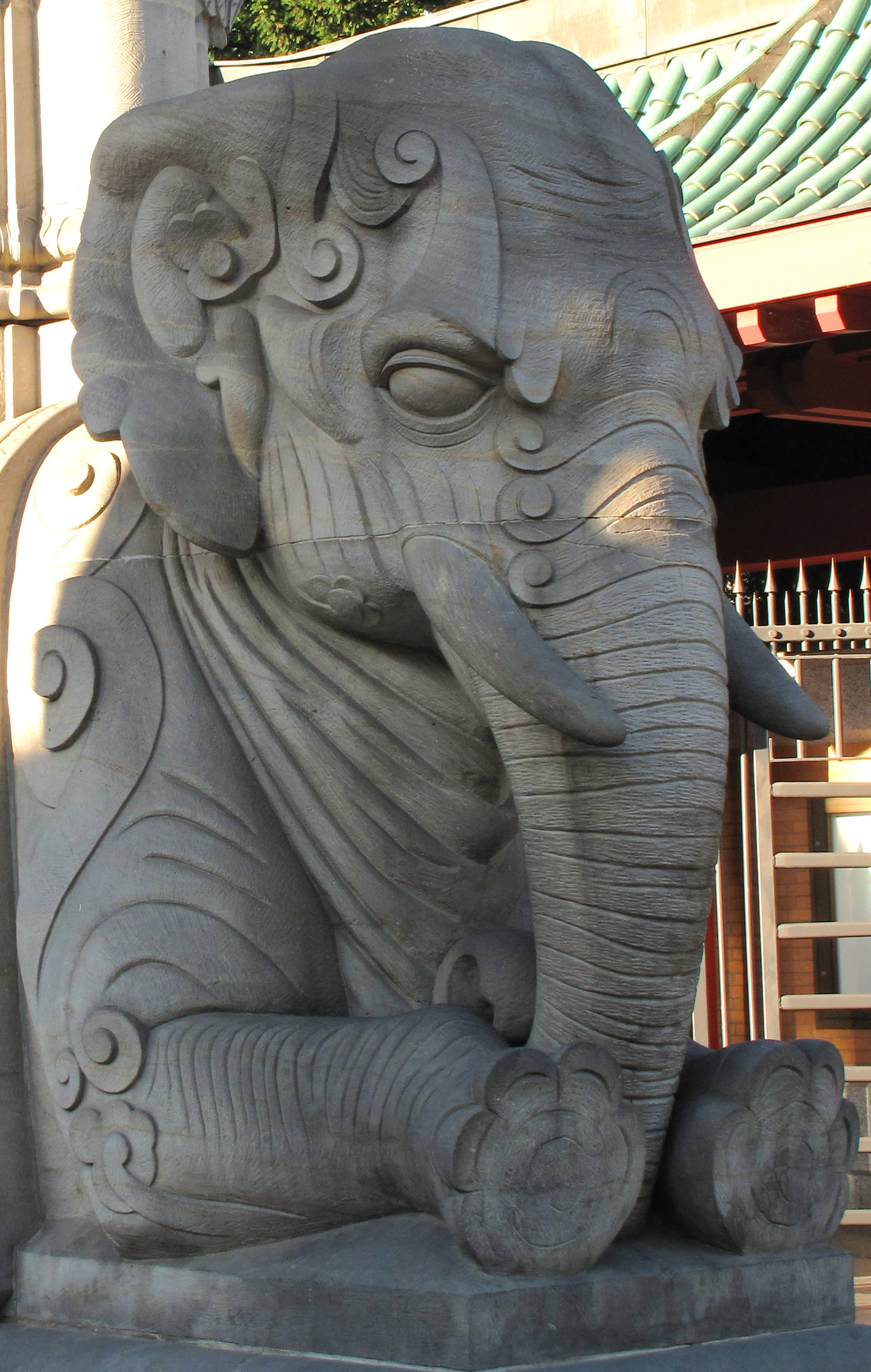 Elefant statue at the entrance of the Berlin zoo (Zoologischer Garten Berlin).